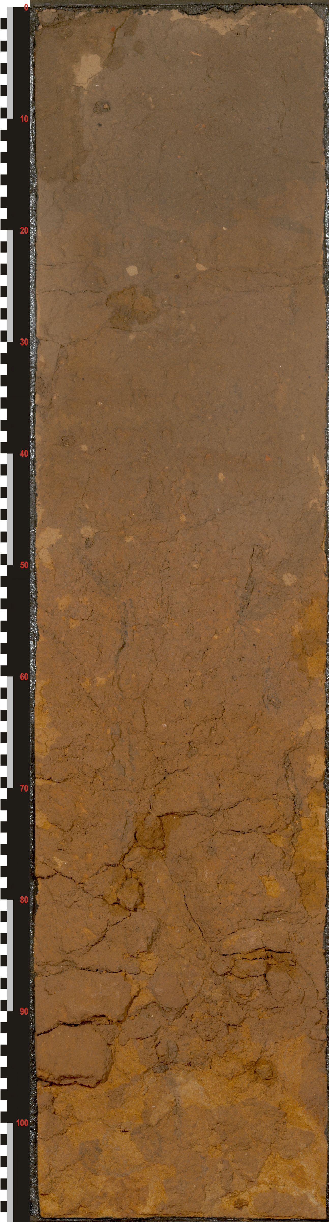 ISRIC World Soil Reference Collection (Luvisols). Profile URL